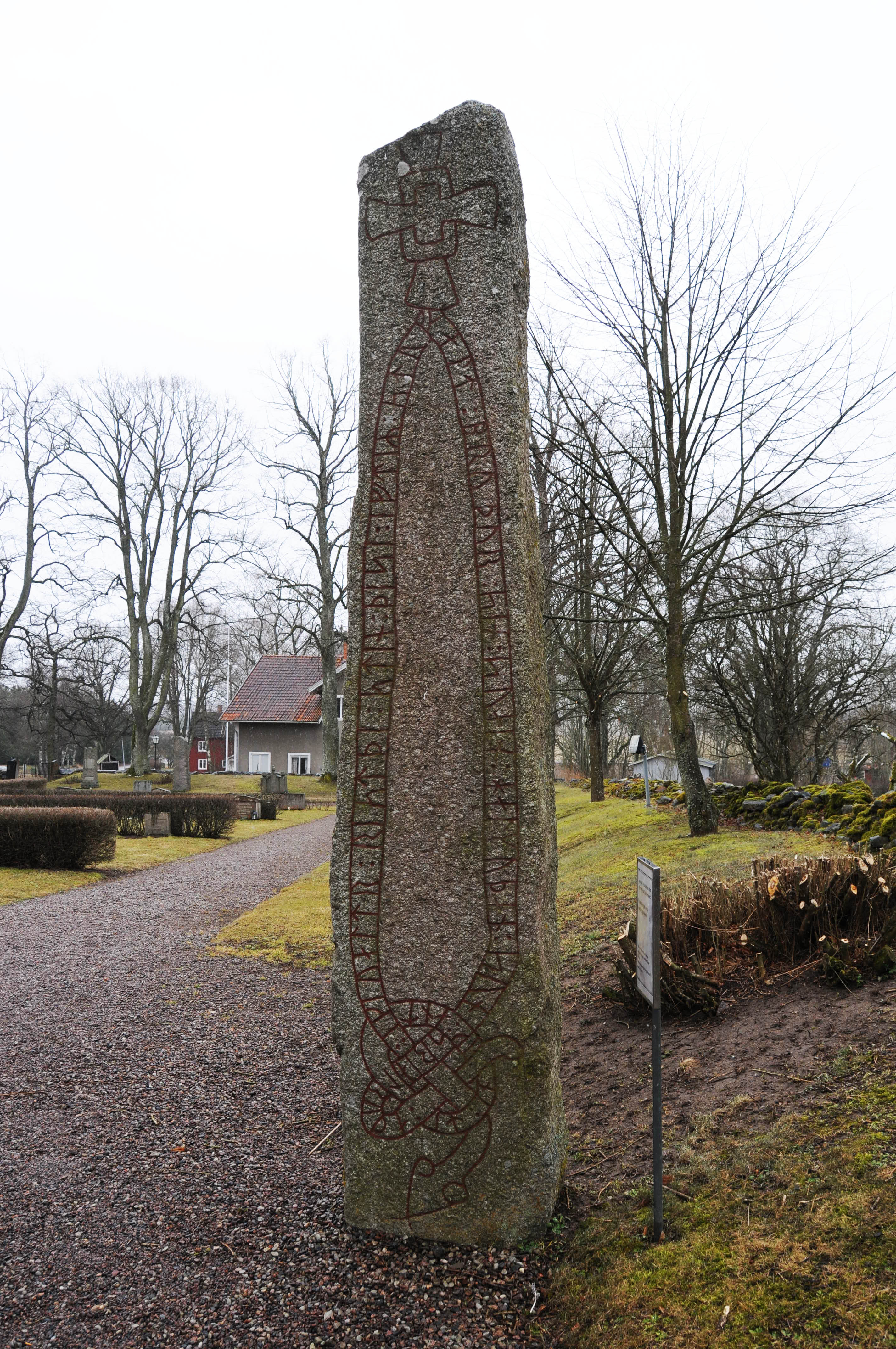 Runestone Ög 66 in Bjälbo parish, Östergötland.